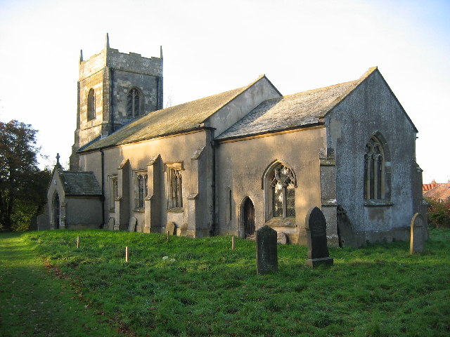 St Leonard's parish church, Skerne, East Riding of Yorkshire, England, seen from the southeast